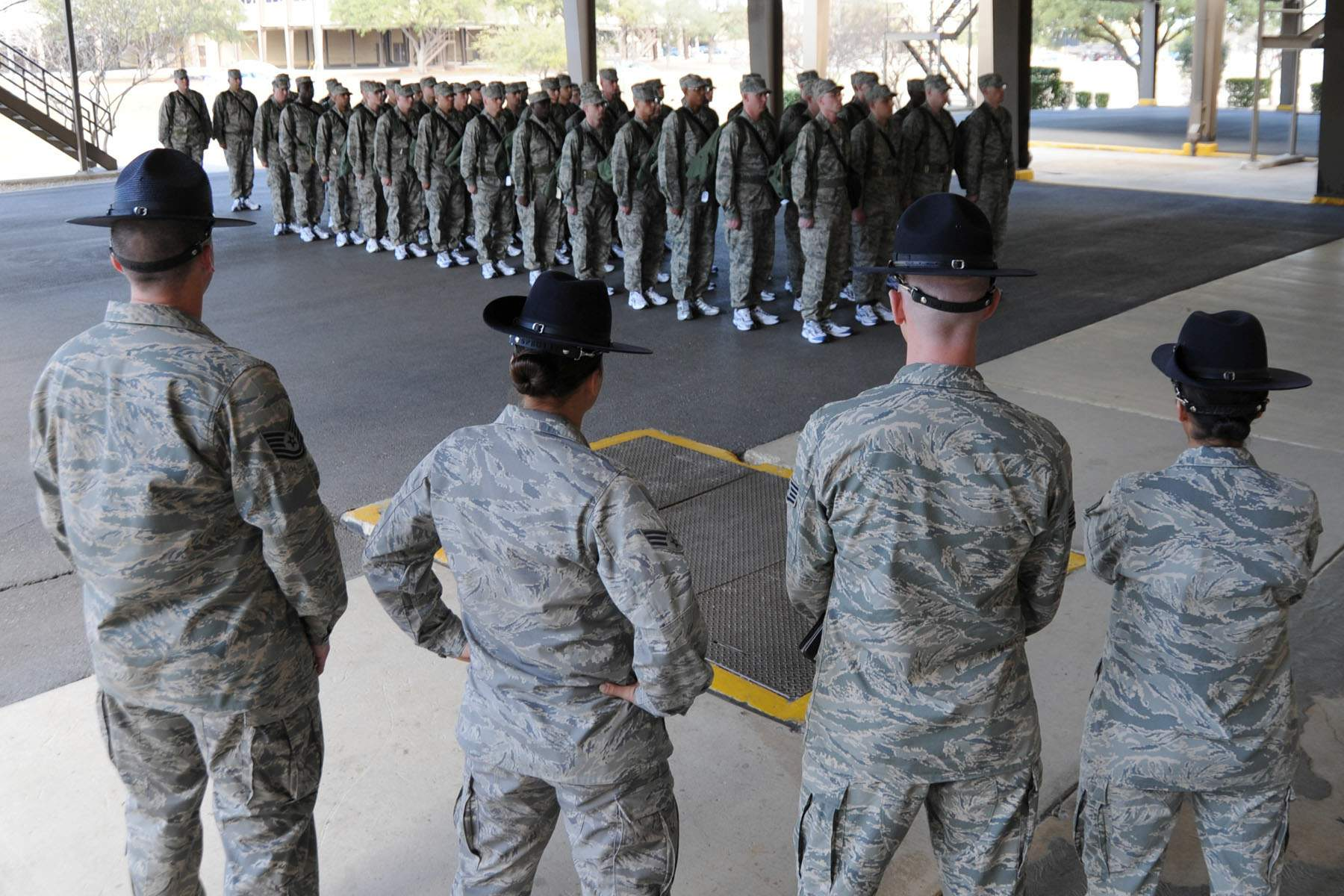 Four military training instructors, ranging in rank from Senior Airman to Technical Sergeant, keep a close eye on a formation of new recruits at Lackland Air Force Base in San Antonio, Texas. Military training instructors now conduct an extended basic training program that runs eight-and-a-half weeks, two weeks longer than the previous program. (From left to right: TSgt Eaton, SrA Miller, SSgt Viel, SSgt Thomas)